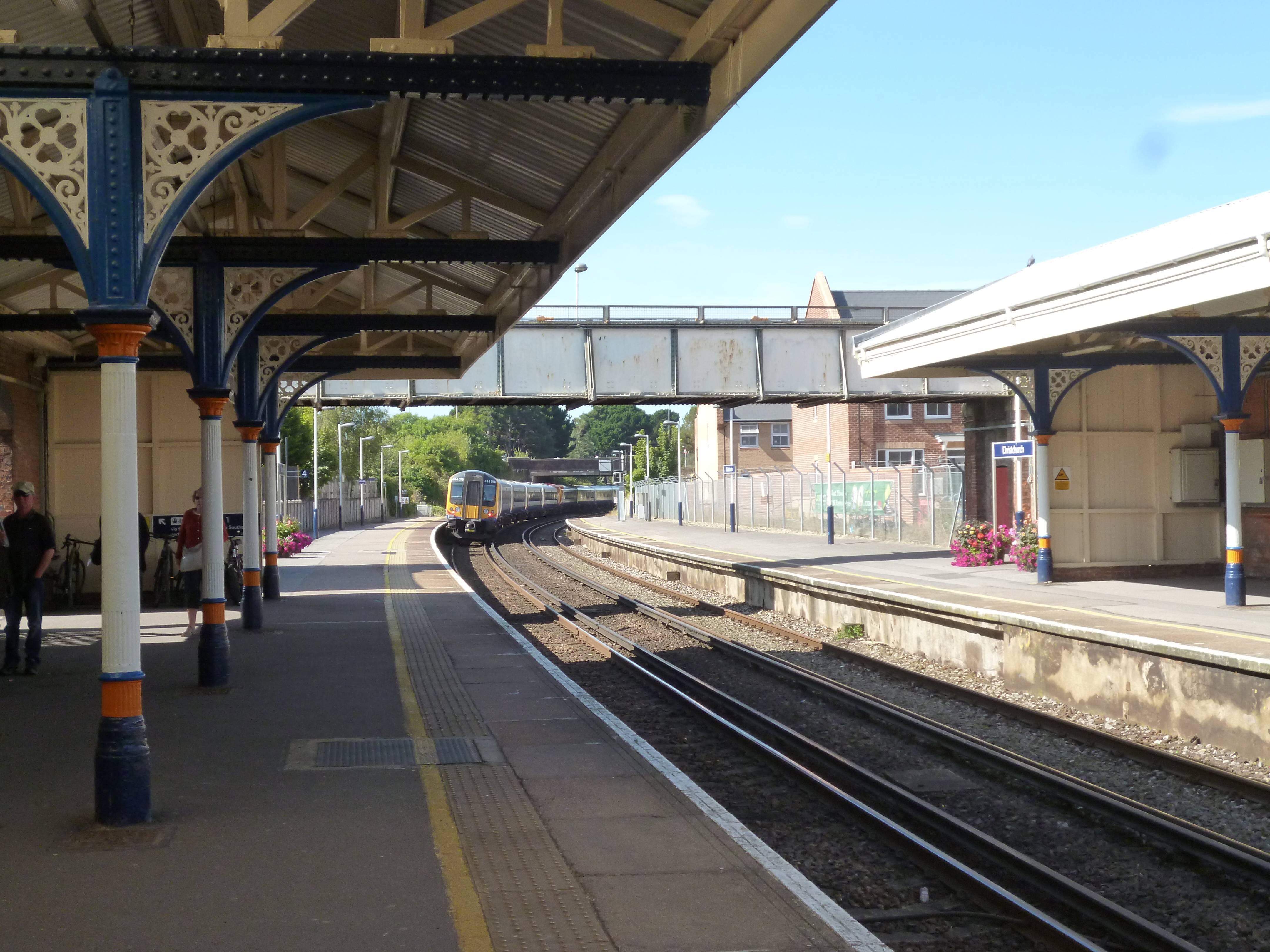 Christchurch Station